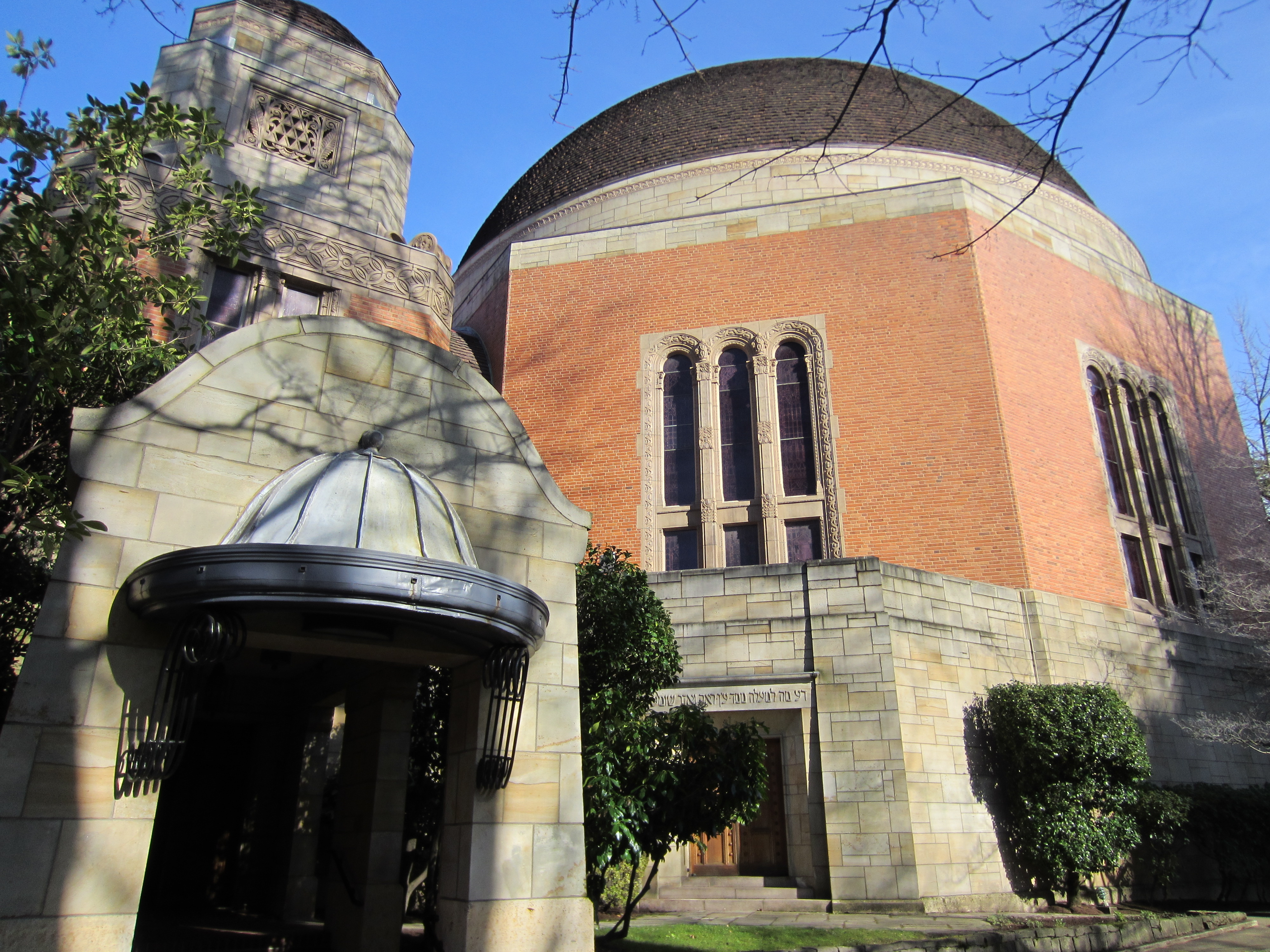 Congregation Beth Israel, also known as Temple Beth Israel, in downtown Portland, Oregon in 2012